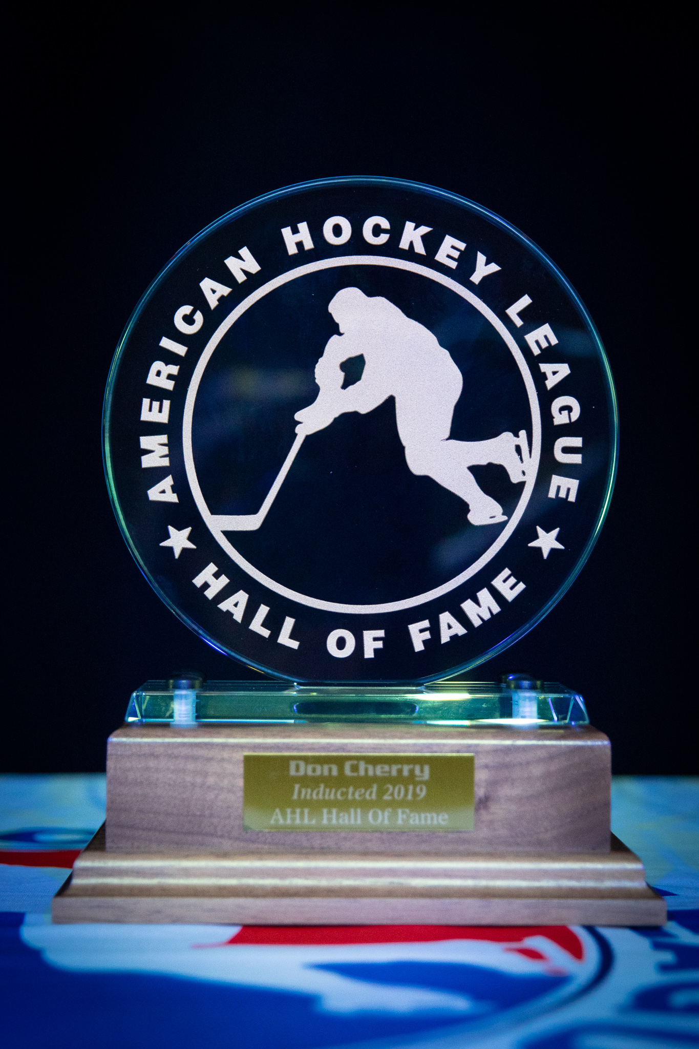 Photo By: Kelly Shea